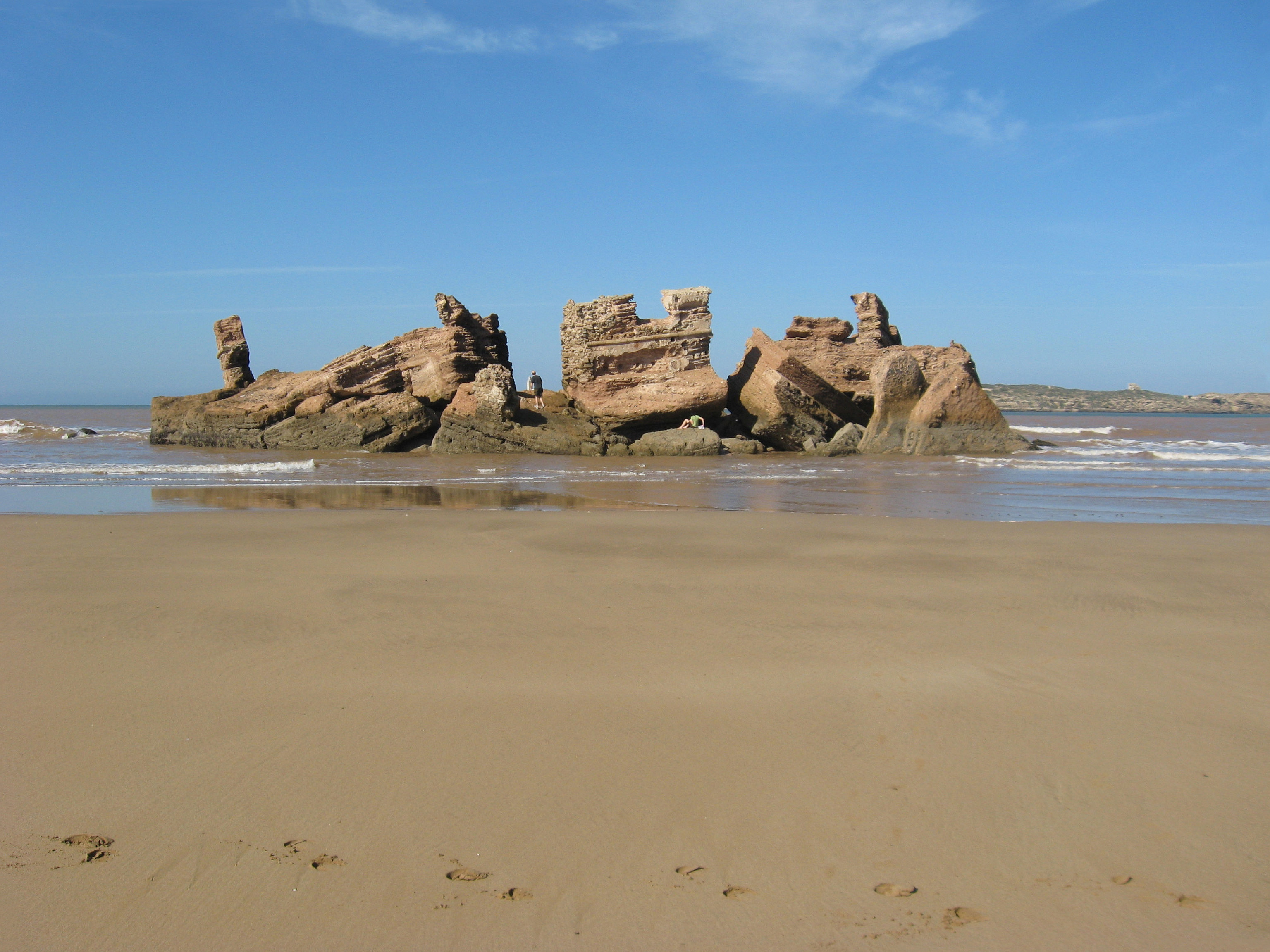 Bordj el Berod ruined watchtower near Essaouira, Morocco